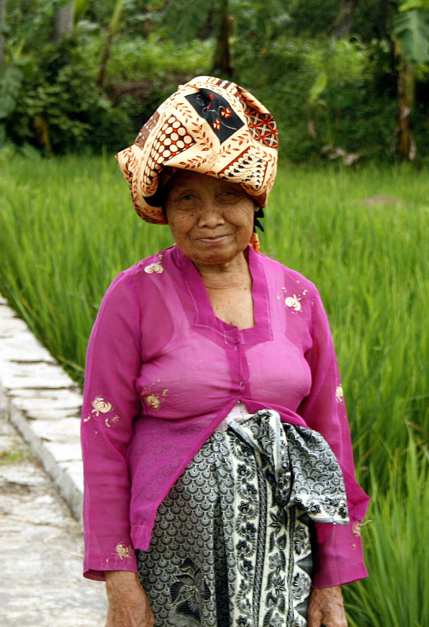 A friendly Sundanese elderly woman on her way at ricefield paddy, wearing kebaya, kain batik and batik headcloth at Leles, Garut, West Java, Indonesia.